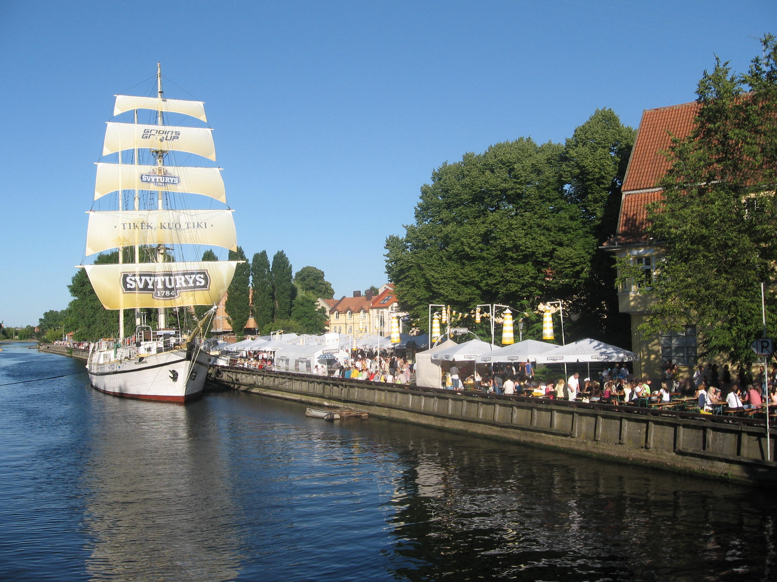 Meridianas, a wooden ship used as a restaurant and tourist attraction in the Lithuanian city of Klaipėda.